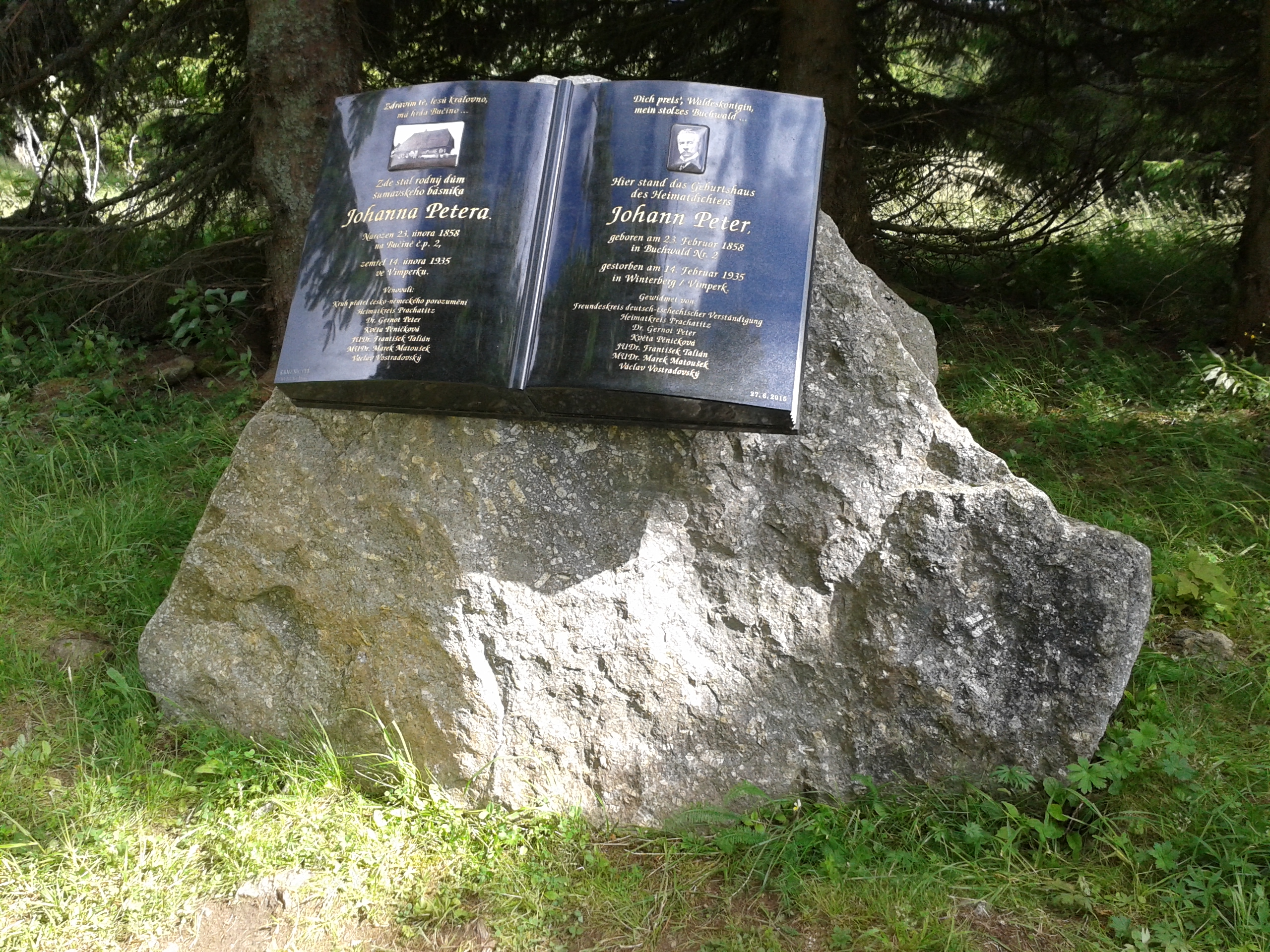 Memorial dedicated to Johann Peter (* 1858 - 1935), which was a German teacher, poet and writer who wrote stories about the residents of Šumava. The memorial stands at Bučina (Buchwald = defunct German former village in Šumava) in the place where stood Birthplace of this Šumava poet.